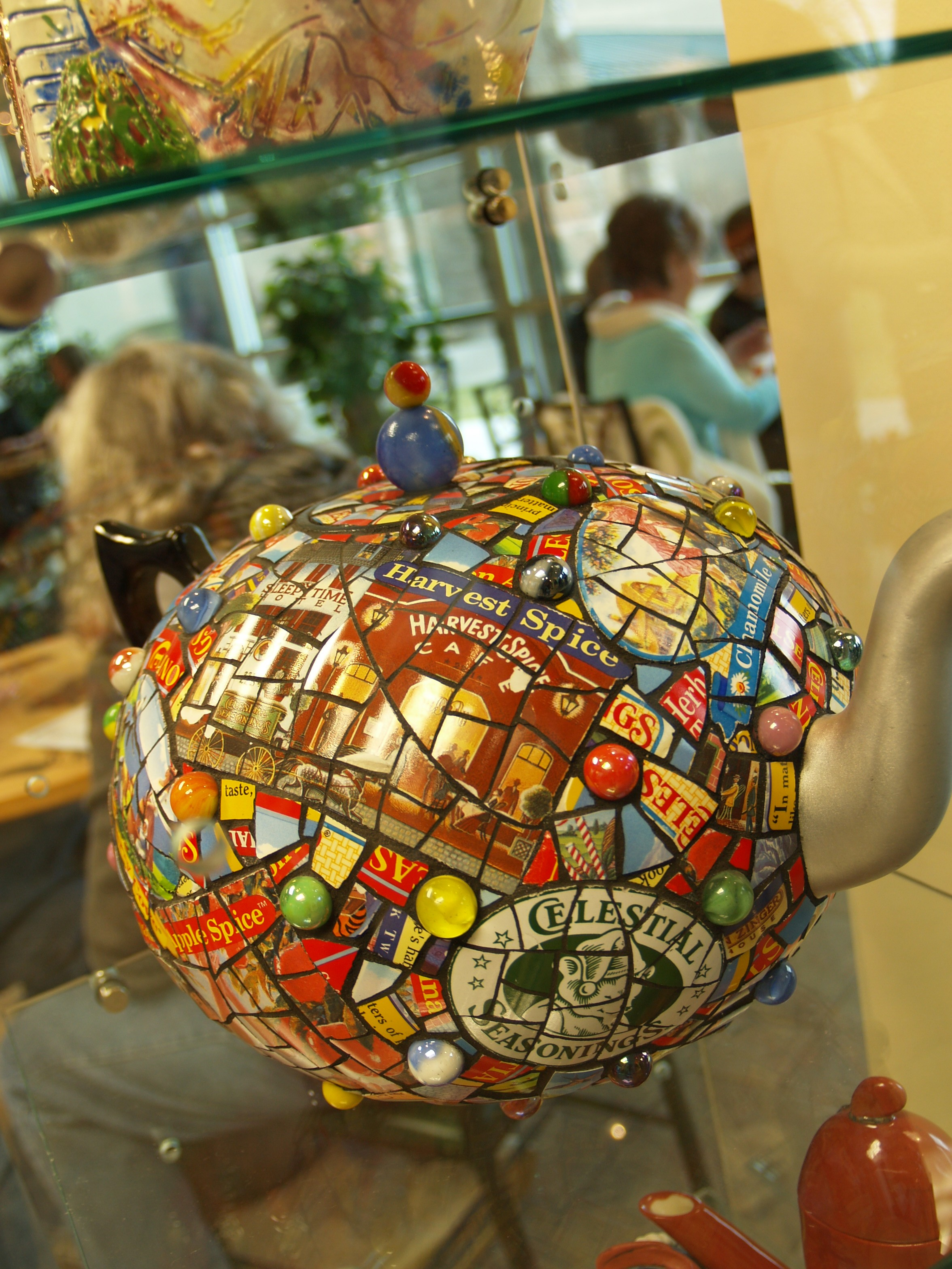 Teapot at Celestial Seasons Tour (description added by uploader.)